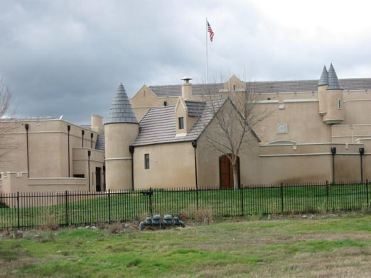 Scientology facility Gold Base, in California